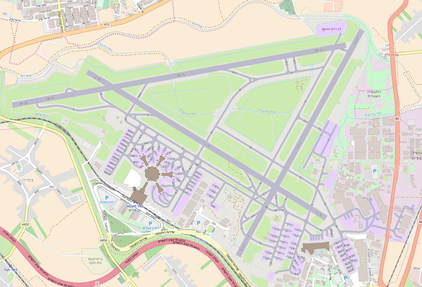 Ben Gurion Airport Map